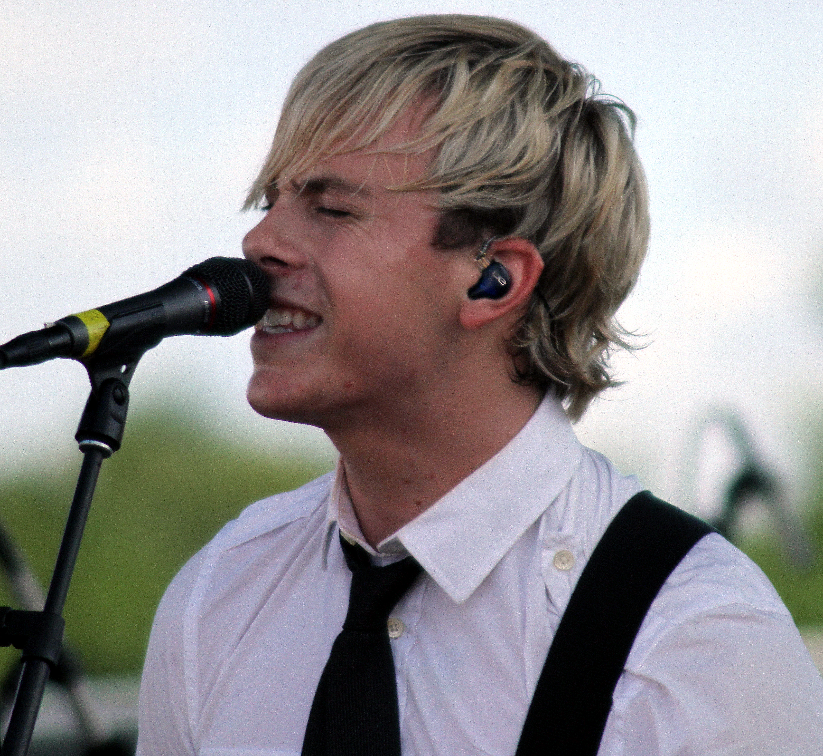 Riker Lynch (starring as Jeff one of the Dalton Academy Warblers on "Glee") performing with his family's band R5 in Whitehouse Station, N.J. on July 29, 2012.